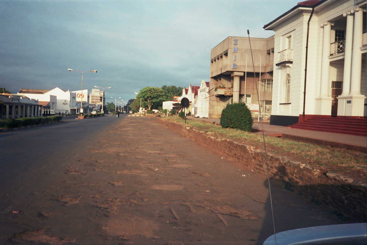 Main street in Livingstone in 1999.